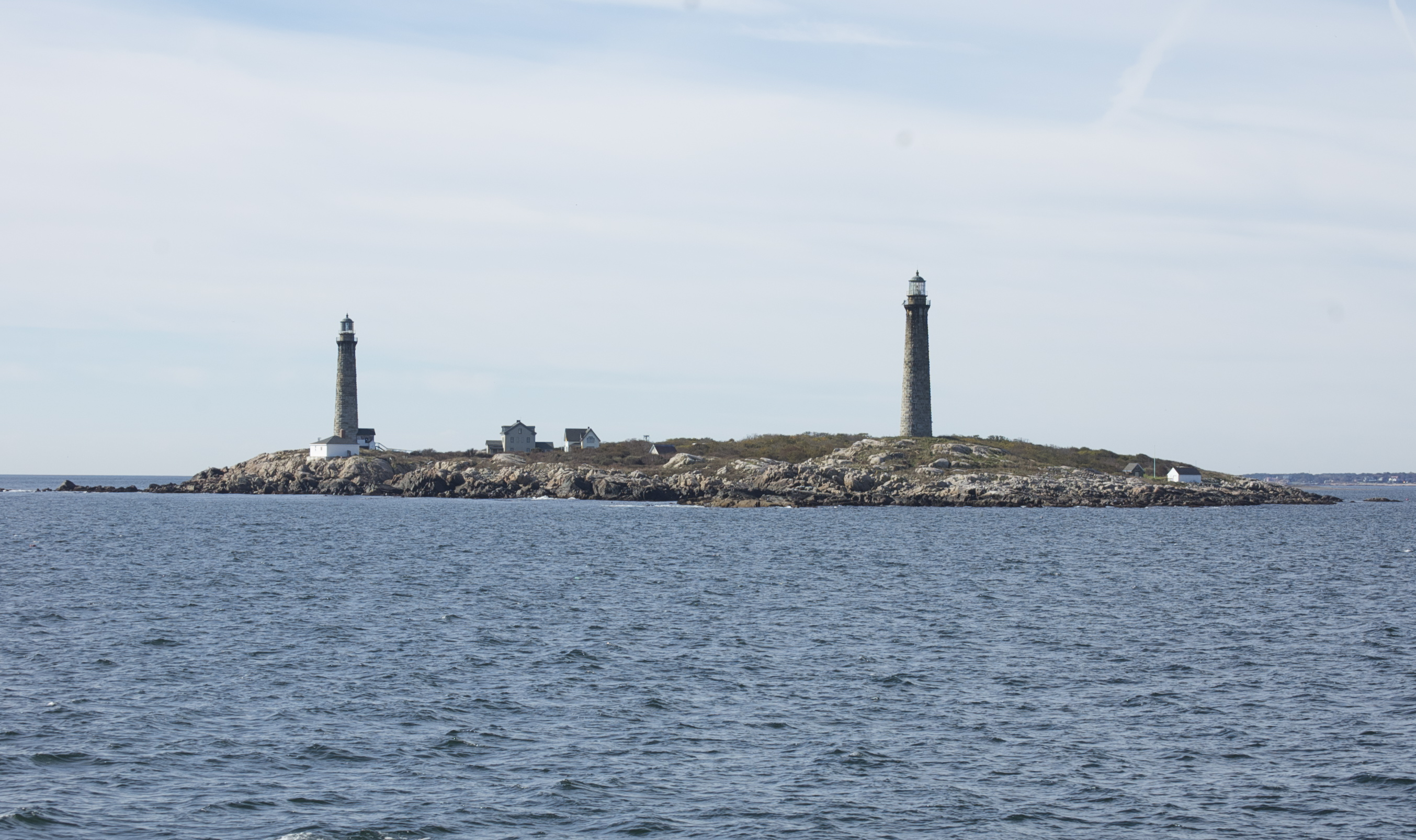 Thacher Island with its twin lighthouse system, off Cape Ann, Massachusetts.